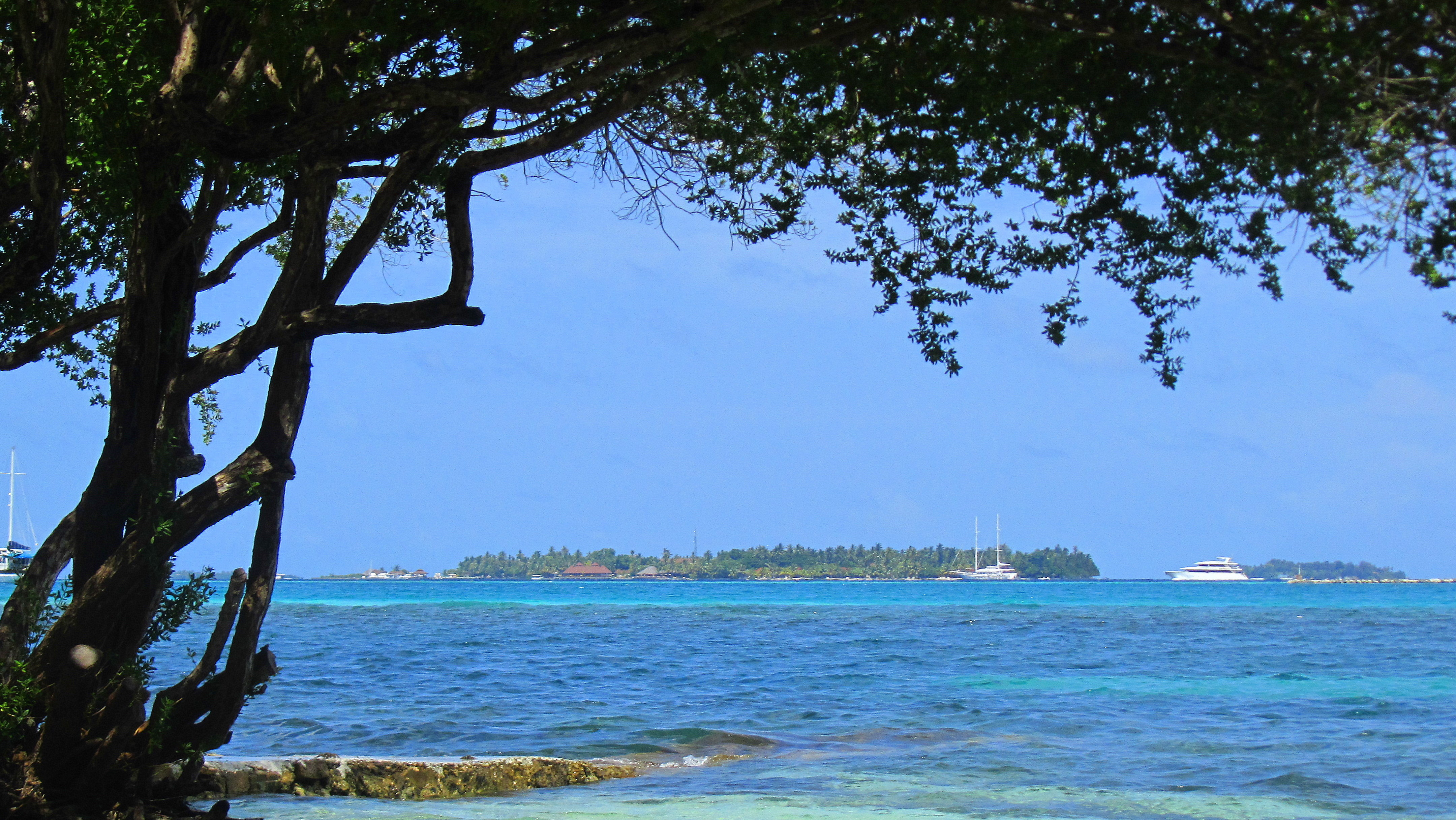 Kurumba Maldives, The first tourist resort opened in Maldives in 1972.